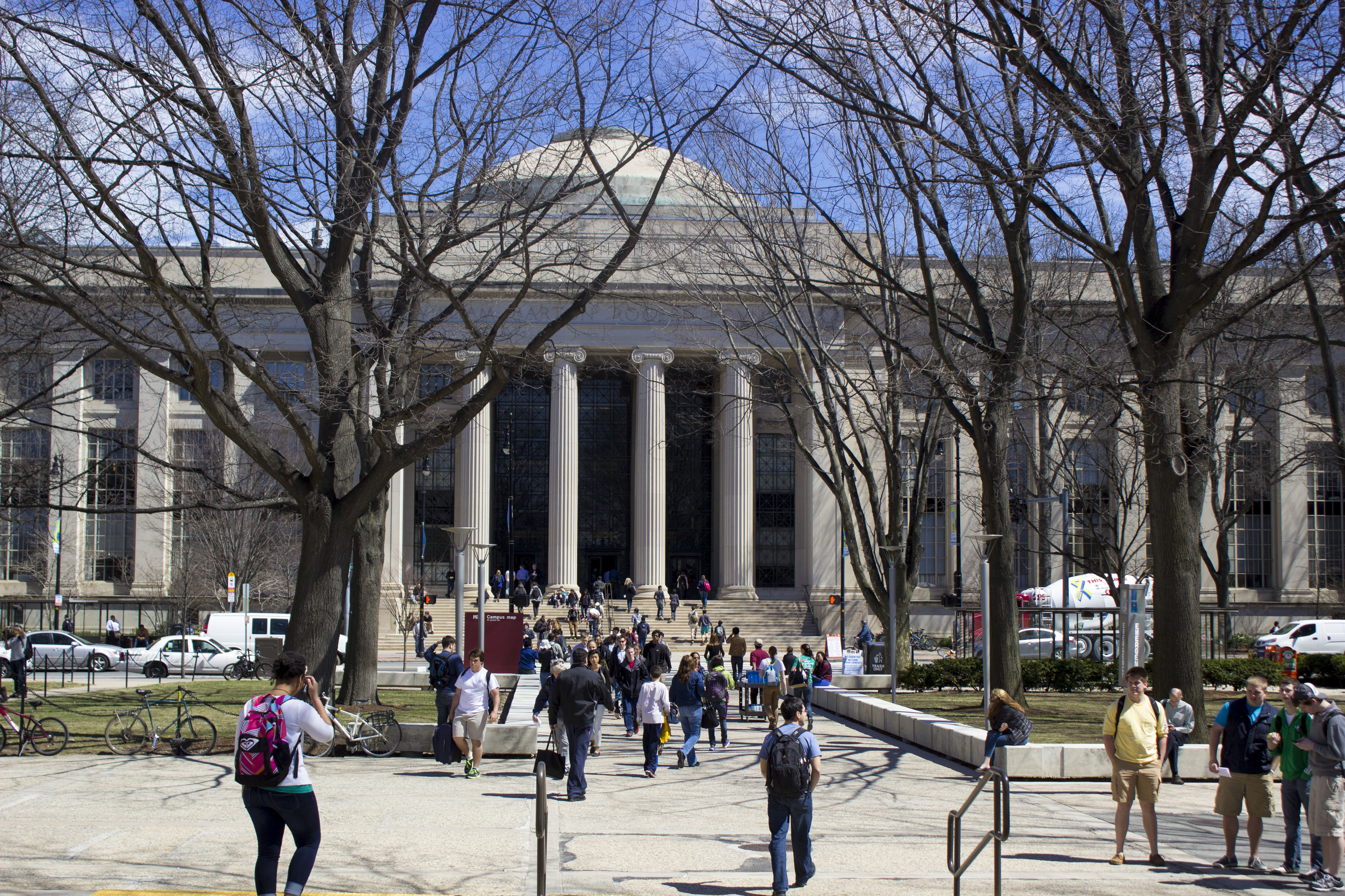 MIT campus